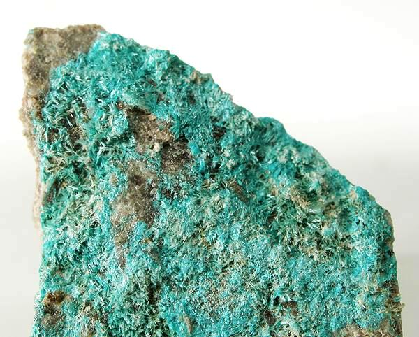 Ajoite Locality: New Cornelia Mine (Ajo Mine) area, Ajo, Little Ajo Mts, Ajo District, Pima County, Arizona, USA (Locality at ) Size: 2.4 x 2.4 x 2.0 cm. Ajoite is a very rare potassium, sodium, copper silicate, named after its discovery locality, the New Cornelia Mine, Ajo, Arizona. Pretty, lustrous, bluish-green, acicular, ajoite crystals richly cover the excellent thumbnail. Older material from the Carlton Davis Collection.